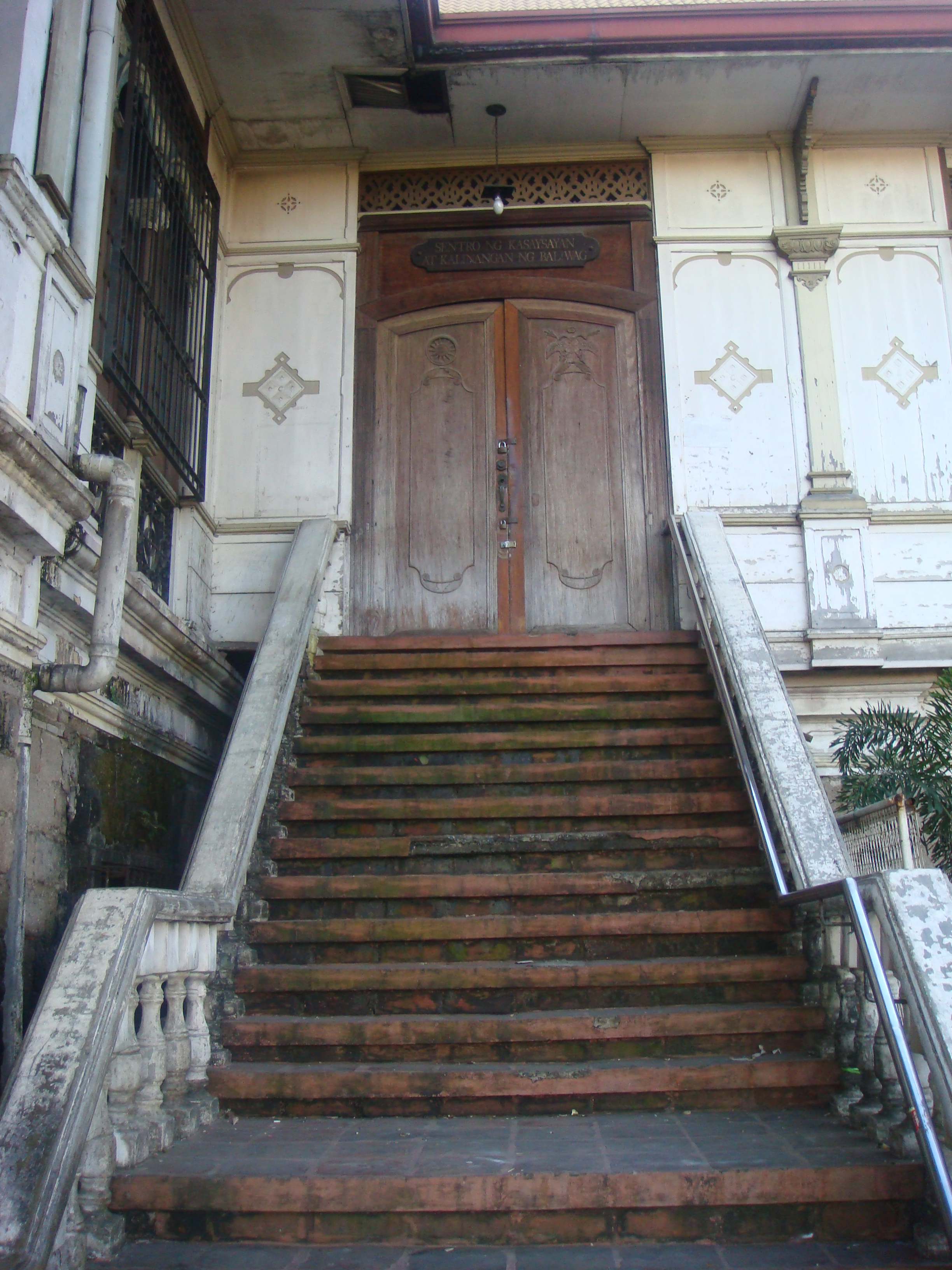 The century-old Sentro ng Kalinangan at Kasaysayan, the town's museum, was once the town's municipal hall.